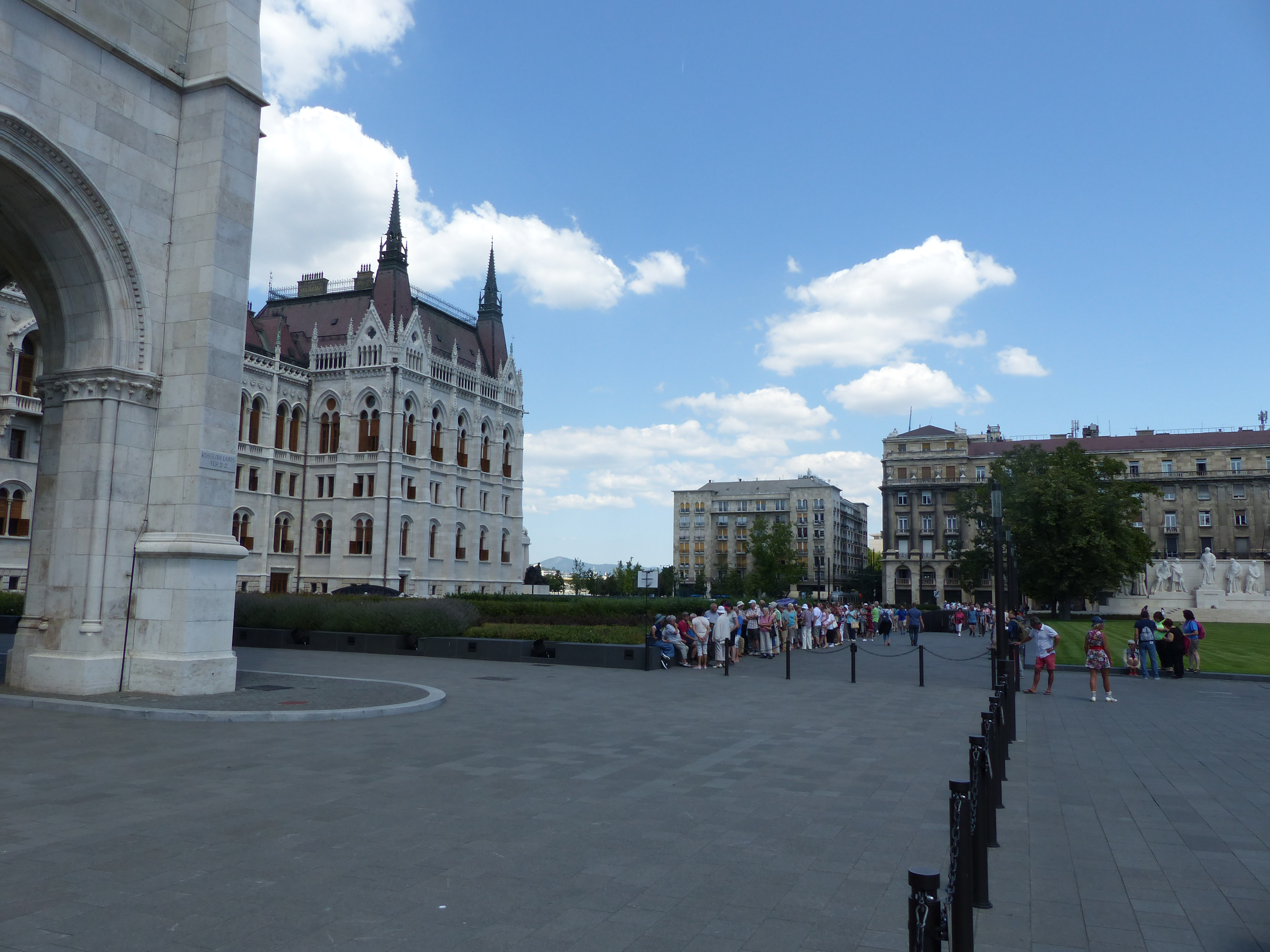 Queuing for Seuso. Taken on Monday, 17th of July, 2017. The treasures of Seuso, Governor of Pannonia returned to Hungary.